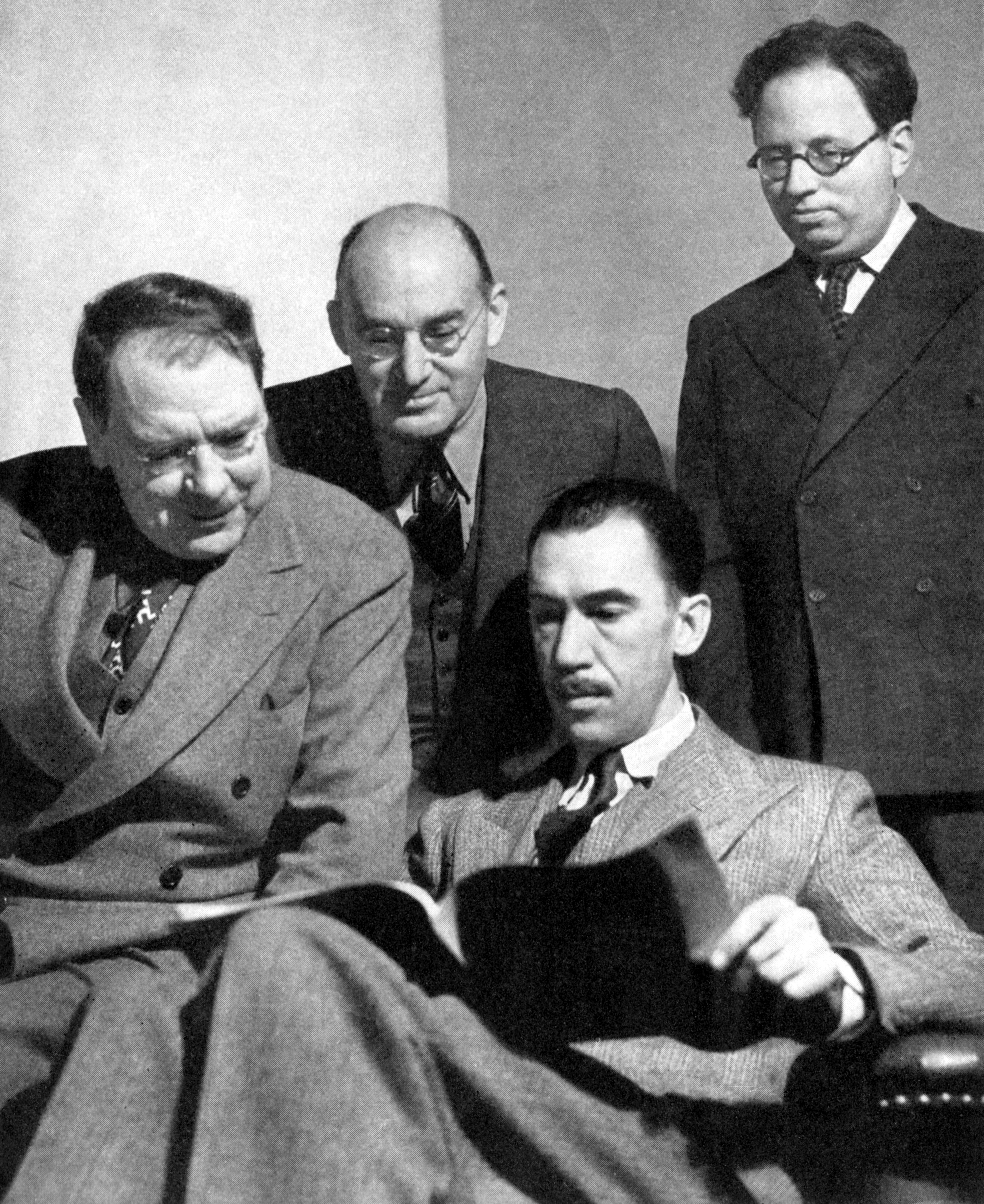 Photograph of (from left) Maxwell Anderson, S. N. Behrman, Robert E. Sherwood and Elmer Rice, four of the five founders of the Playwrights' Company Caption reads as follows:Four playwrights in the same boat, members of The Playwrights' Company. Seated in the chair, Robert E. Sherwood. On the arm of the chair, Maxwell Anderson. Standing, S. N. Behrman and Elmer Rice. The fifth member, Sidney Howard, is in Massachusetts working on a new play.